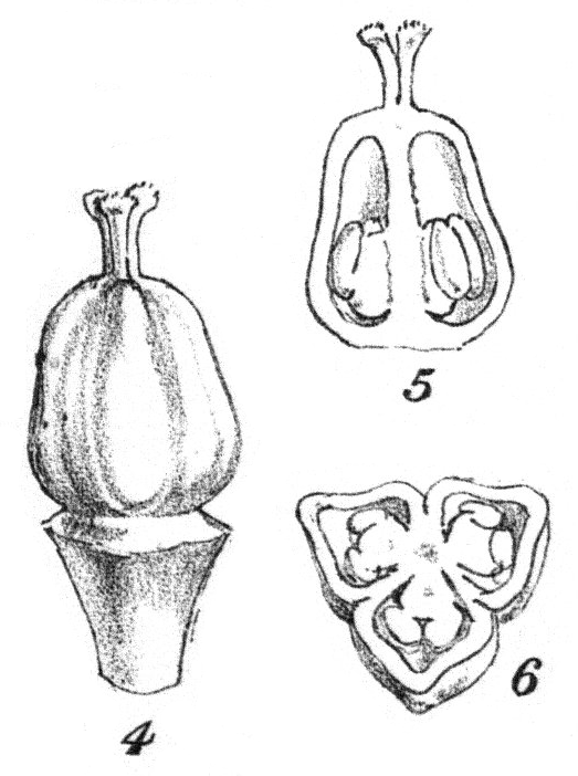 Nolina humilis - Pistil